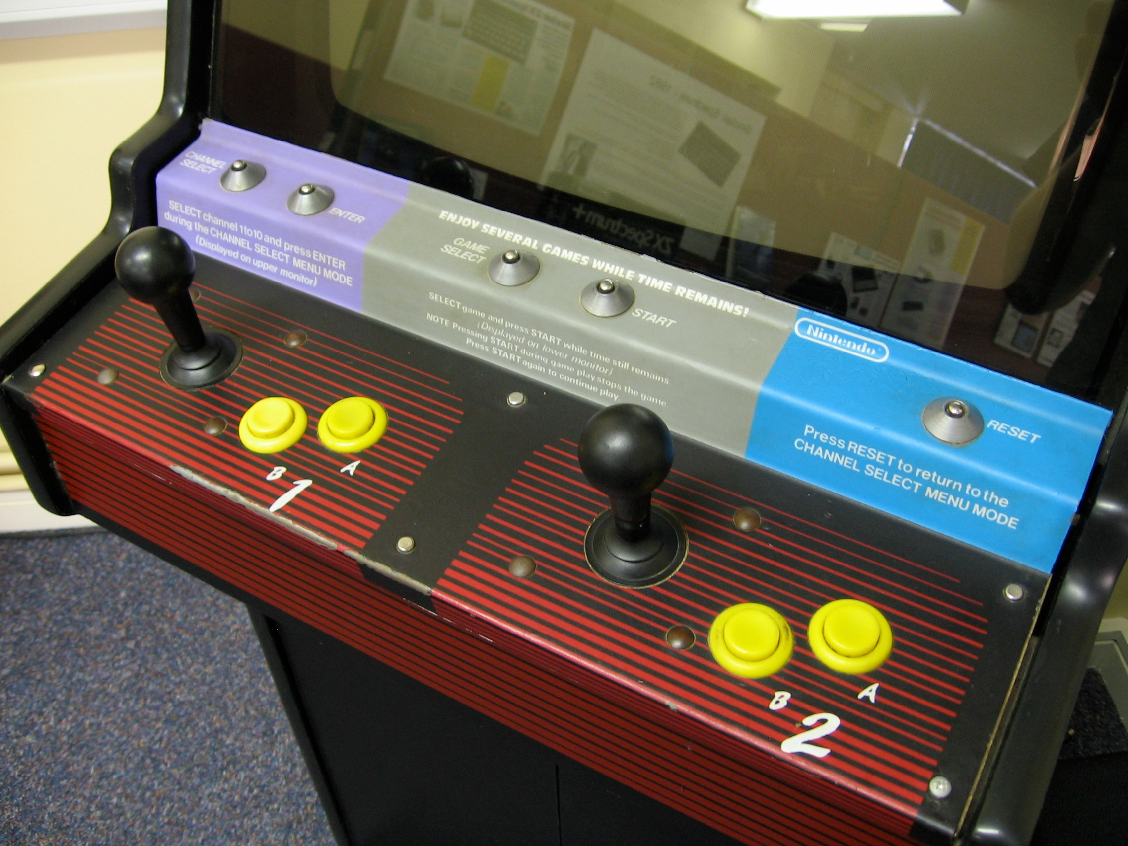 Closeup of control panel on a Nintendo Playchoice-10, an NES-based arcade game system.